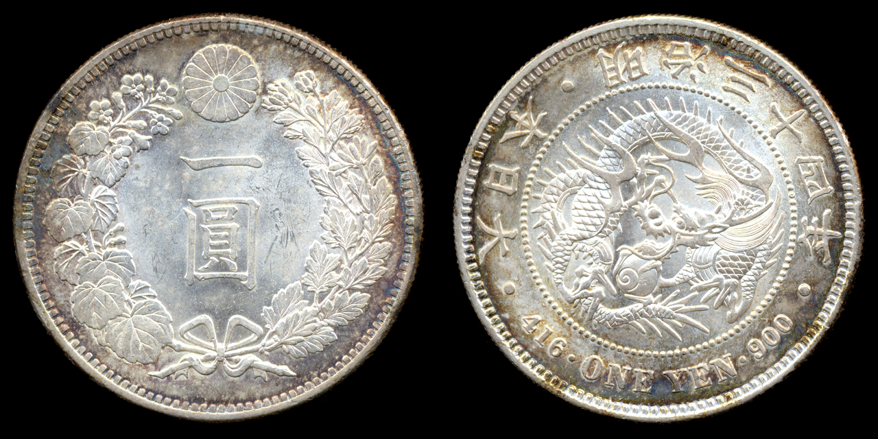 1yen-M34. 1900.